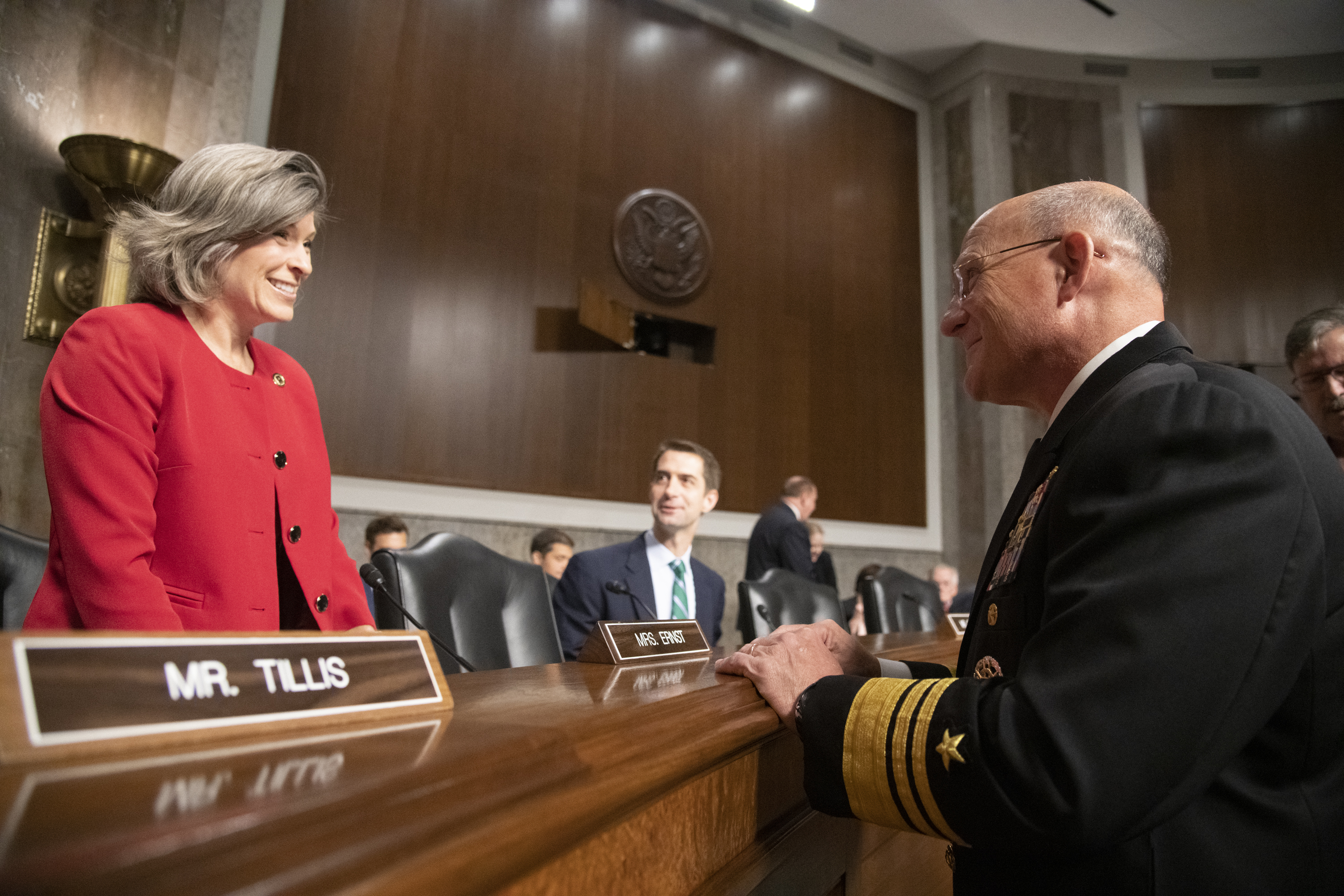 Sen. Joni Ernst speaks to Navy Vice Adm. Michael M. Gilday, director of the Joint Staff, before his confirmation hearing for the position of Chief Naval Operations at the U.S. Senate Dirksen Building in Washington, D.C., July 31, 2019. (DOD photo by U.S. Navy Petty Officer 1st Class Dominique A. Pineiro)